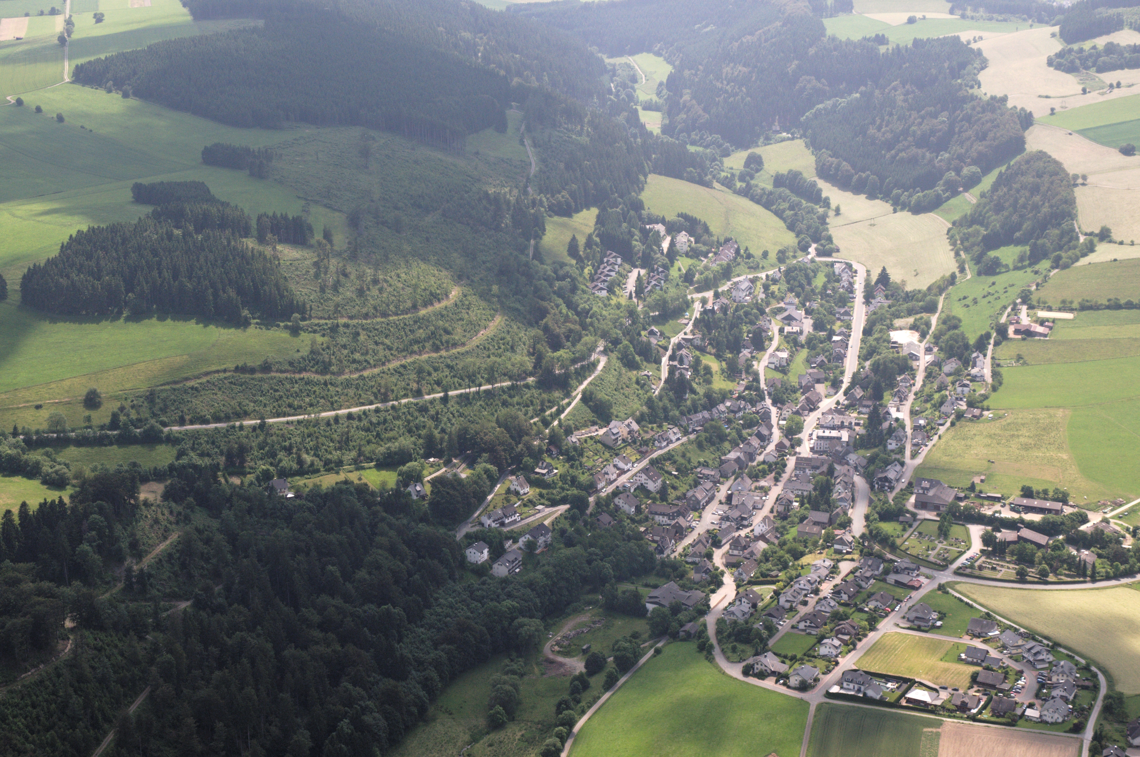 Fotoflug Sauerland-Ost, Willingen-Schwalefeld The making of this document was supported by the Community-Budget of Wikimedia Germany.